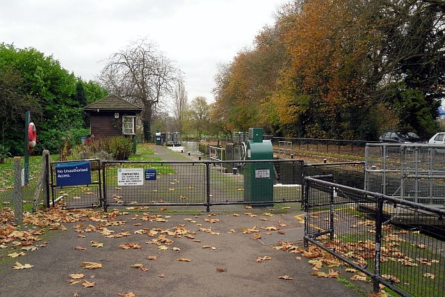 This side of the lock is on a small island, it goes by the alternative names of Caversham Lock Island or De Bohun Island. The lock gate on the right provides part of a pedestrian route from Reading, via Caversham Weir, to Lower Caversham on the north side of the River Thames.